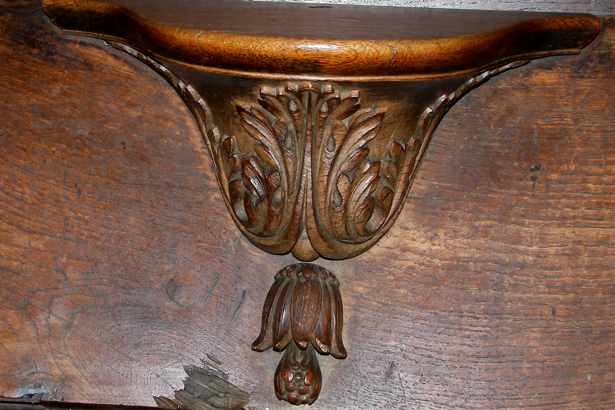 Misericord from the Church Saint-Loup of Ingré (Loiret/FRANCE)